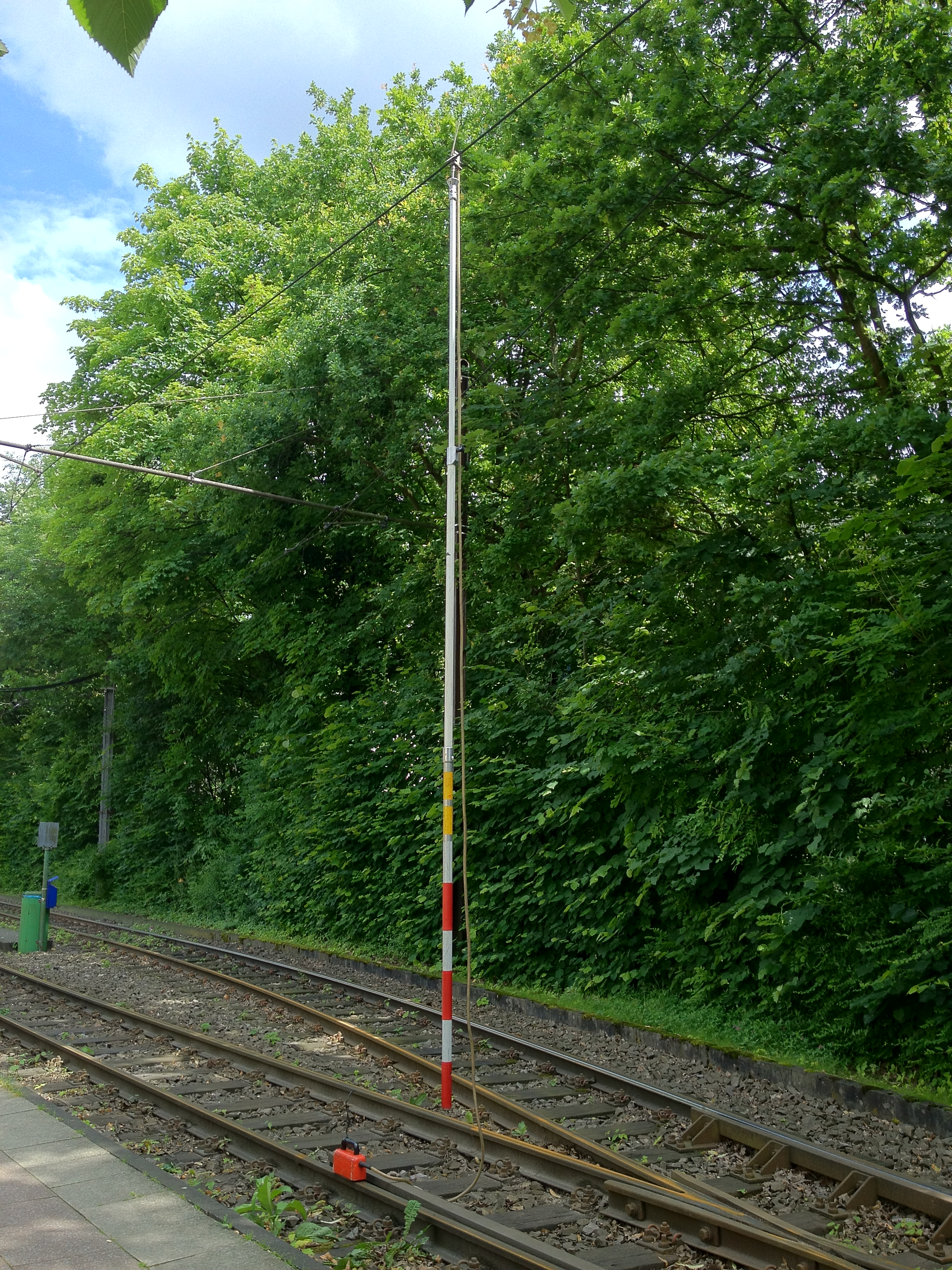 A fiberglass hot stick with a safety ground (earthing) wire attached, used to ground the deenergized overhead line of an electric railway, as a safety measure to ensure that no hazardous voltage is present while the line is worked on by linemen. The earthing wire is attached to the red terminal block which is clamped to the rail, which serves as the ground terminal for the line.